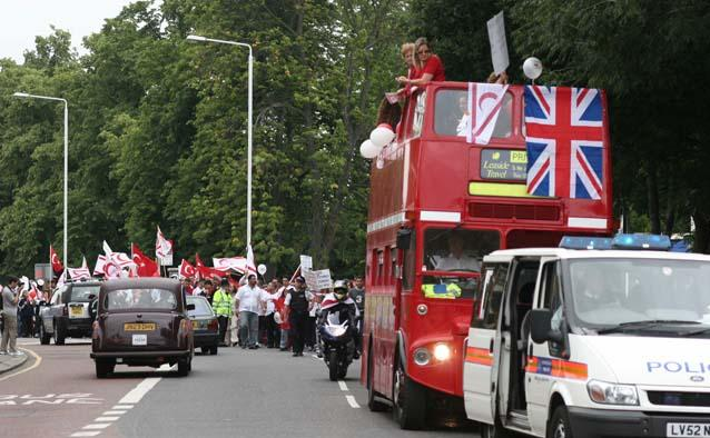 Photo taken by myself of Turkish people living in London with the Turkish Cypriot and British flag on a London bus.